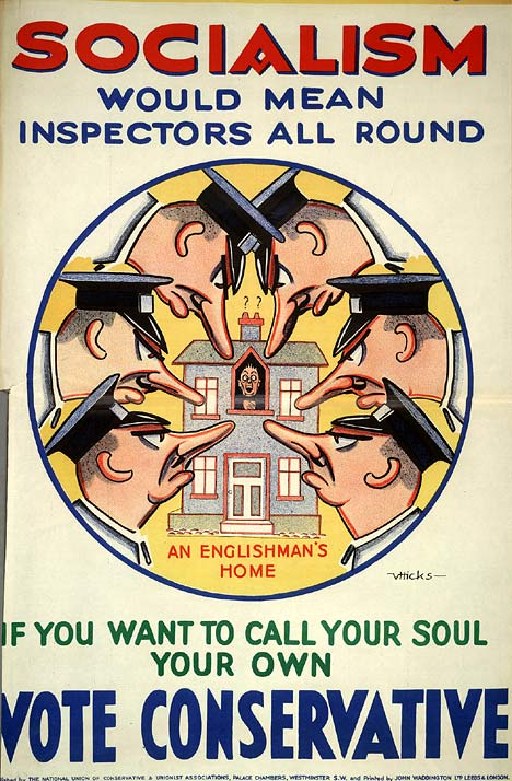 UK Conservative Party poster from 1929 warning of the threat of Ramsay MacDonald's Labour party proclaims "Socialism Would Mean Inspectors All Round", and depicts a beleaguered Englishman in his home surrounded by officials prying into his affairs.